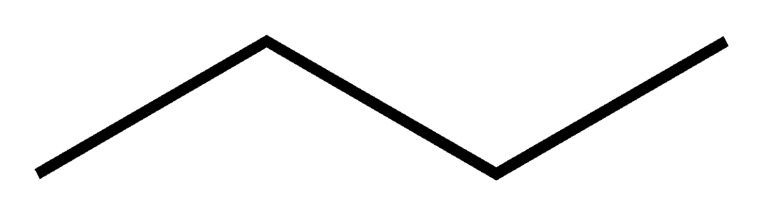 Skeletal formula of butane, C4H10.